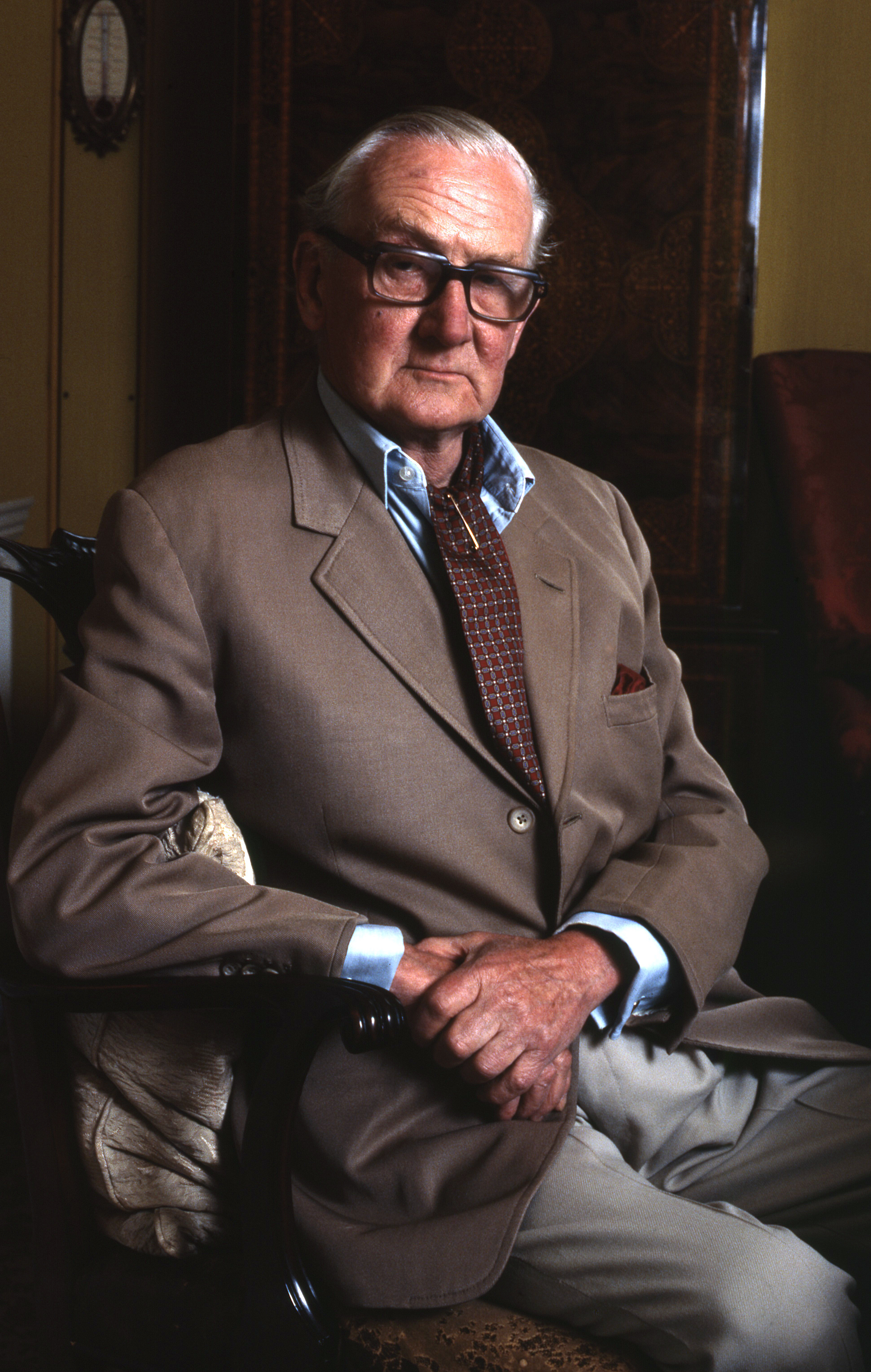 Hugh Percy, 10th Duke of Northumberland taken in his study Syon House London